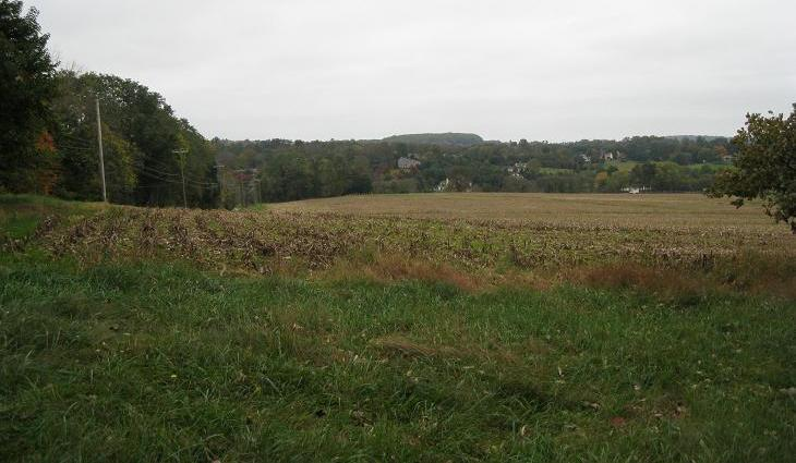 View looking SE from the top of Osborne's Hill along Birmingham Road toward the American positions.